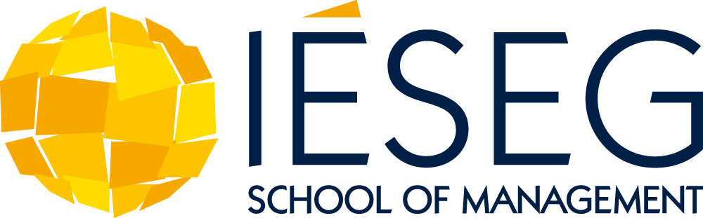 IESEG Logo 2012